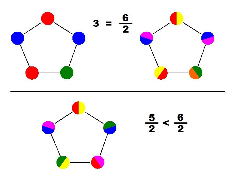 An illustration of two-fold colorings for a cyclic graph on 5 vertices. For use in Fractional coloring